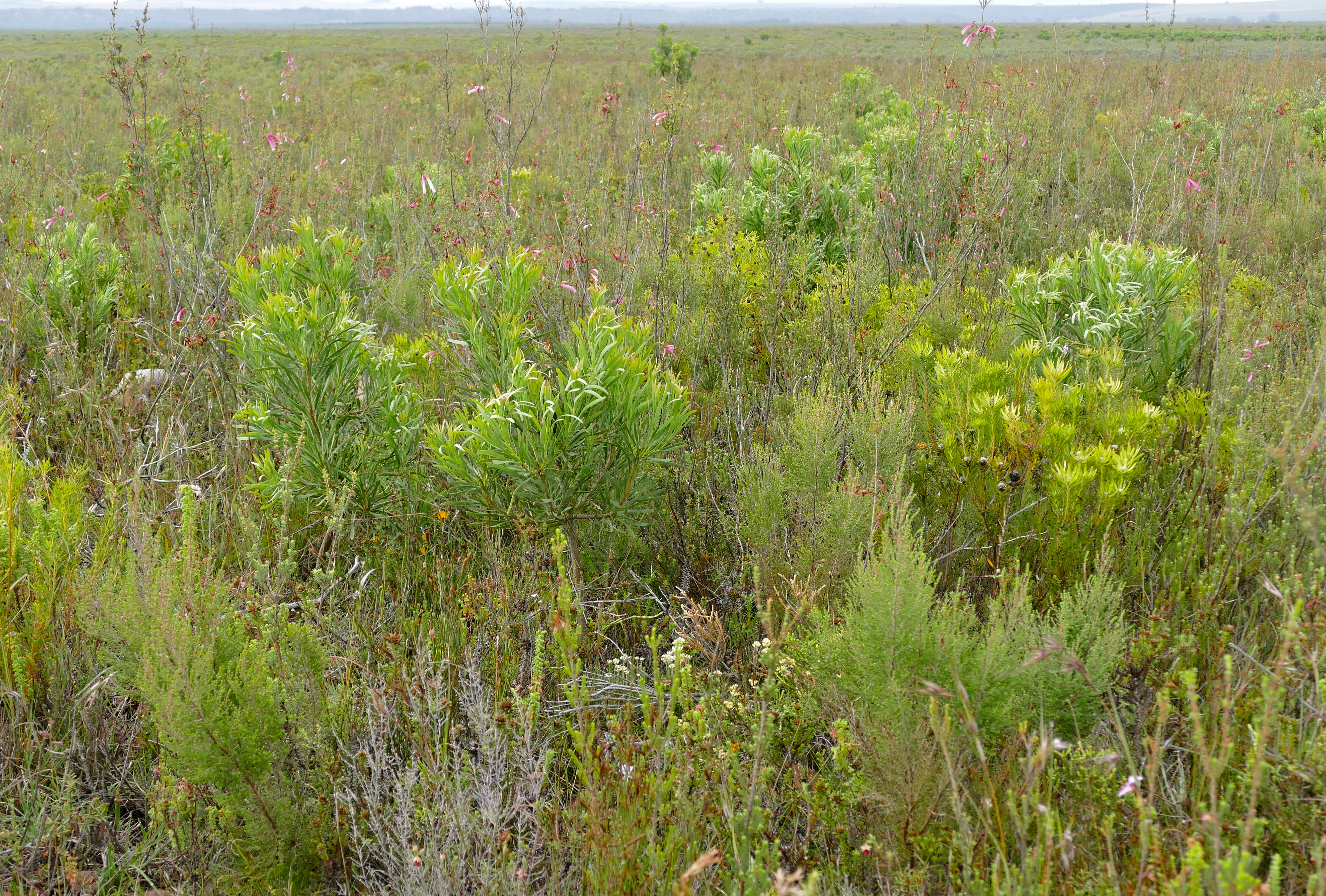 Eastern Loop, Bontebok NP, Western Cape, SOUTH AFRICA